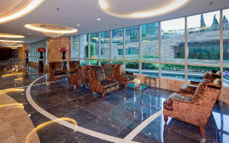 Le prestige